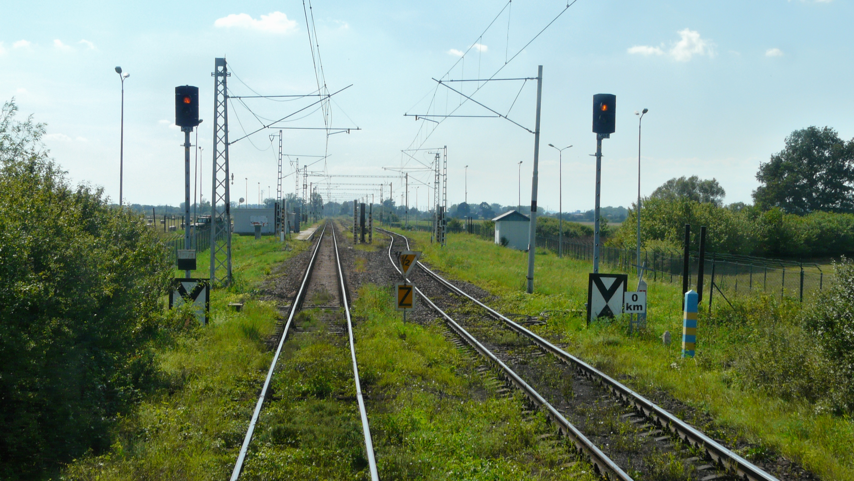 Slovak-Ukrainian state border between Čierna nad Tisou and Solomonovo (from UA side)